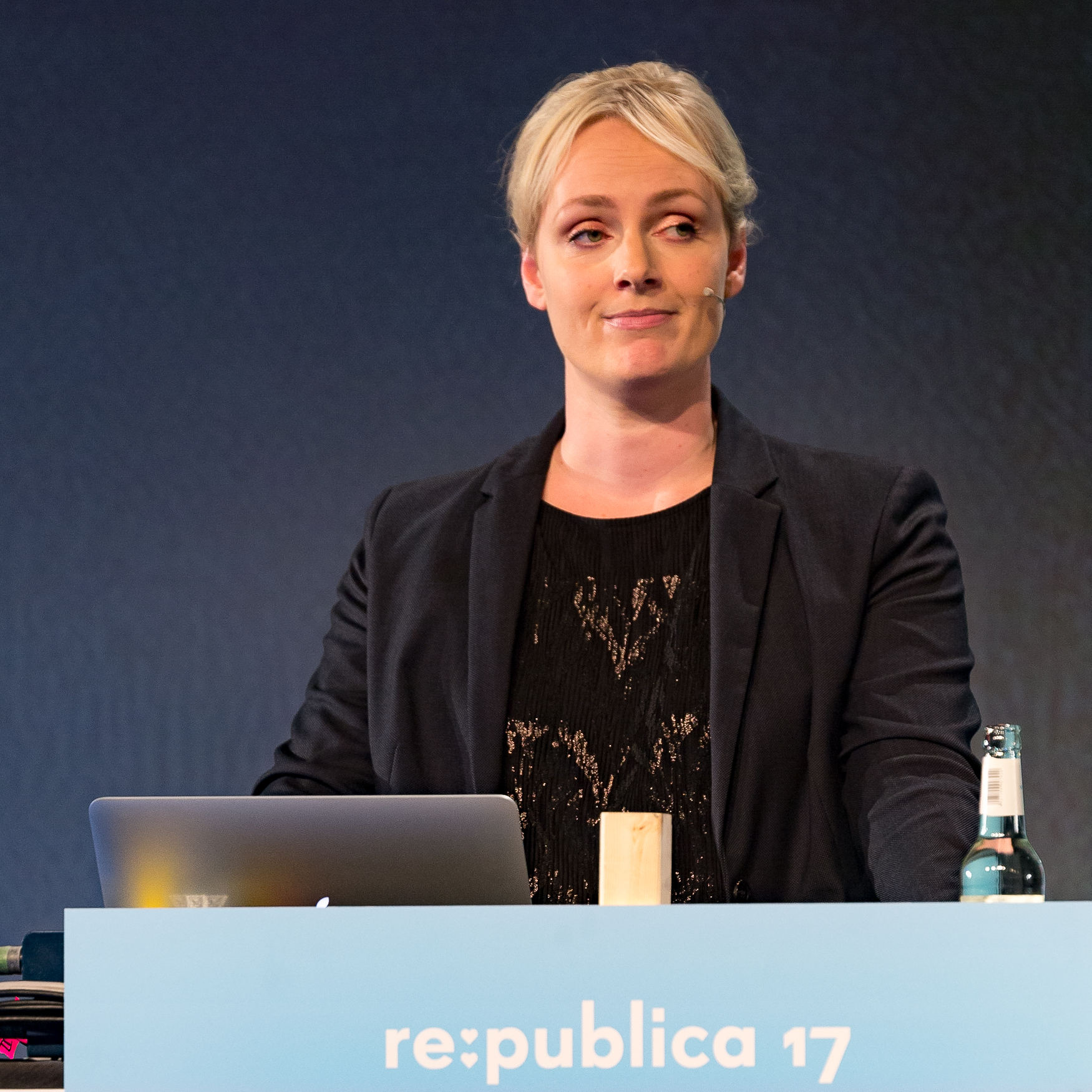 Elisabeth Wehling at the Re:publica 17